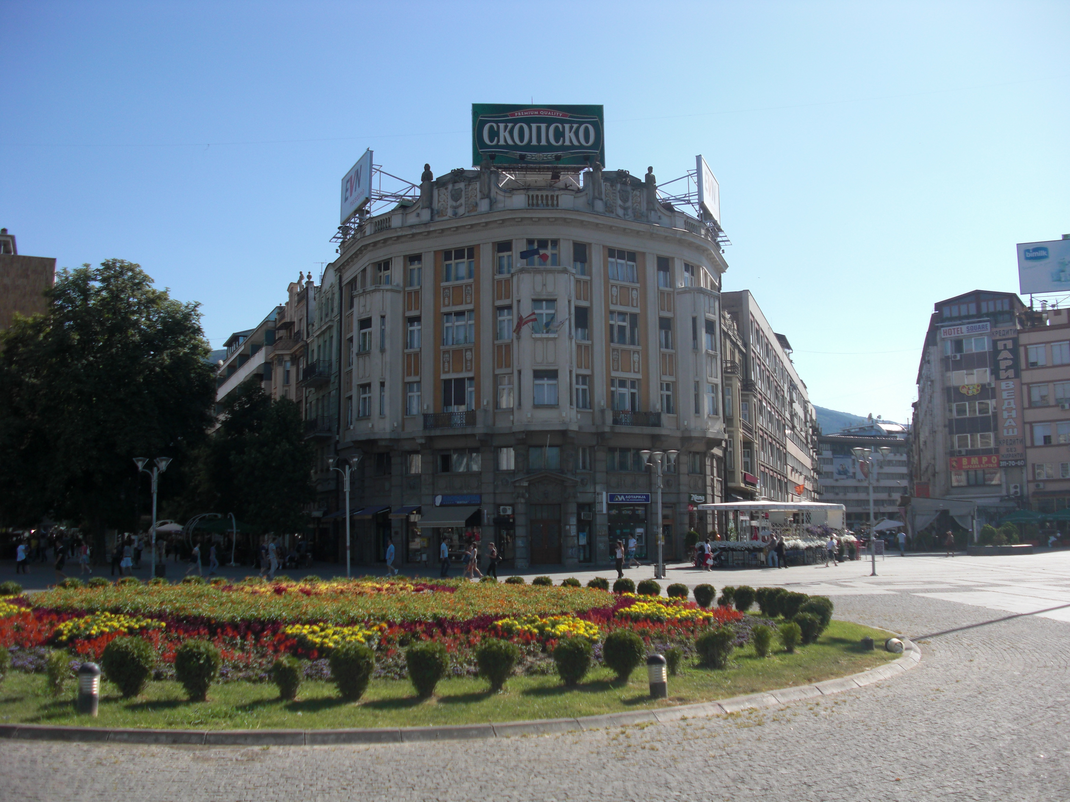 the ristic palace, site in skopje, macedonia